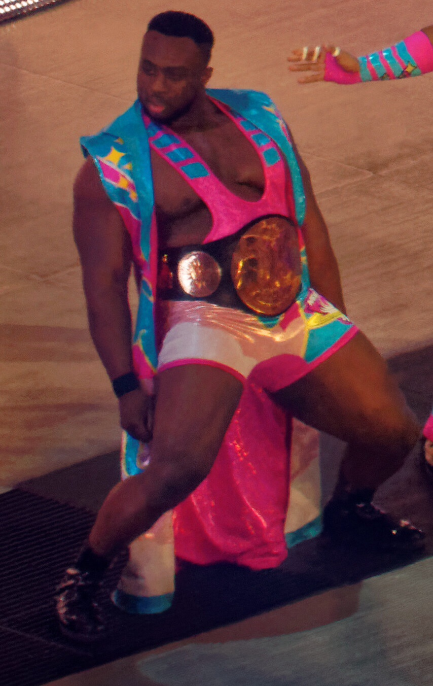 The Raw after WrestleMania 32Big E (c) & Kofi Kingston (c) def. (pin) King Barrett & Sheamus (in 08:45) For: WWE Tag Team Championship